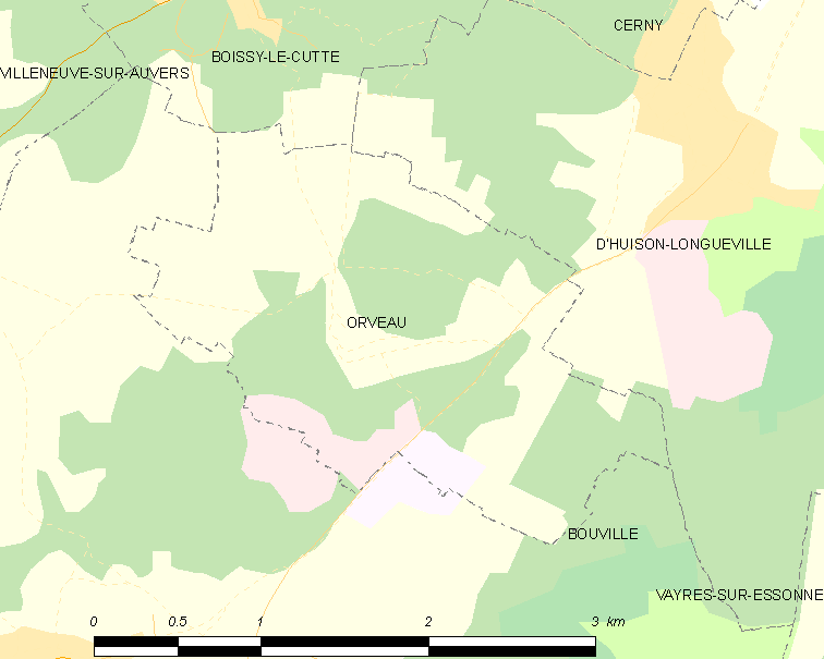 Map of French municipality Orveau